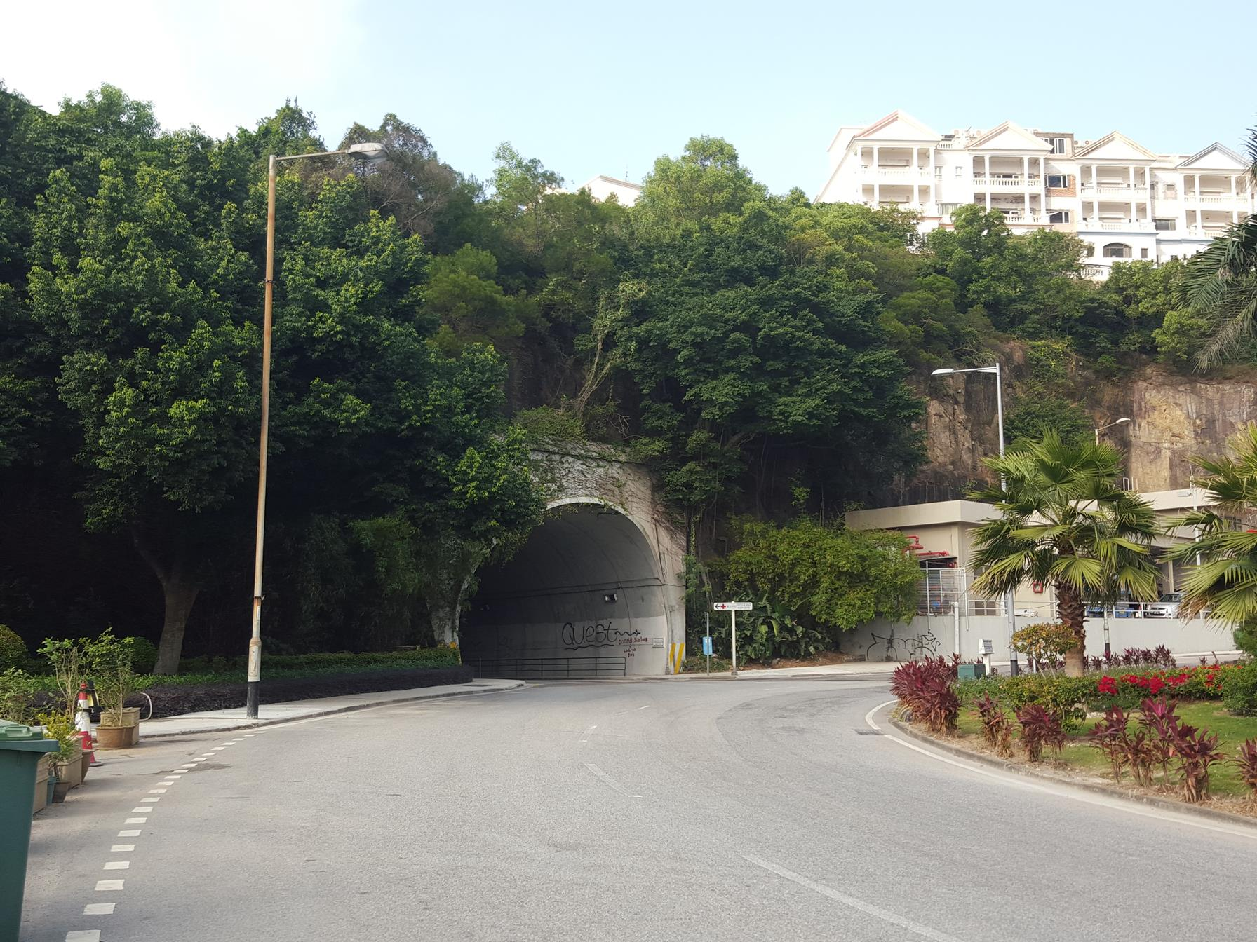 Tunel do Taipa entrance